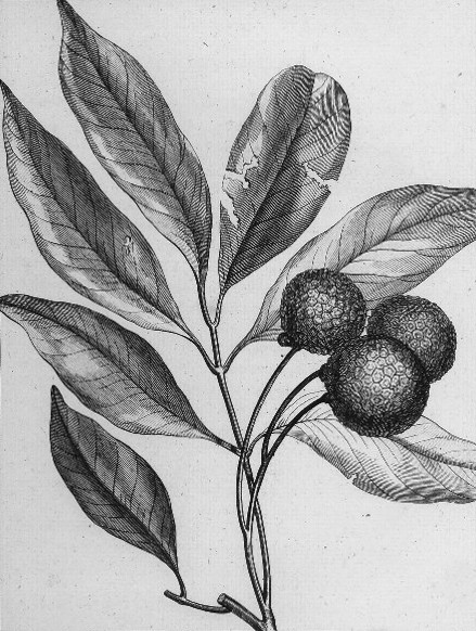 Botanical drawing of Litchi chinensis